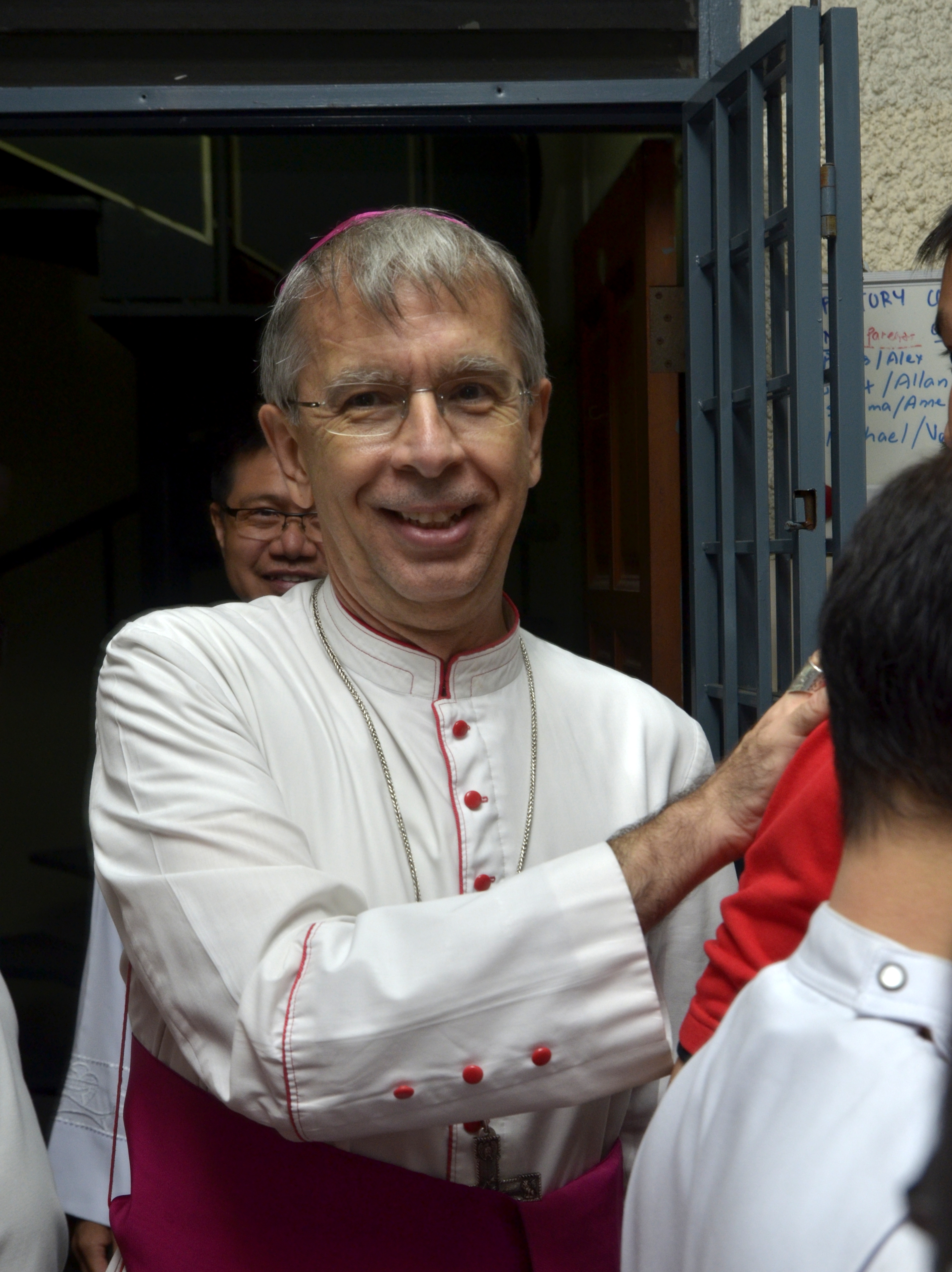 Apostolic Nuncio Archbishop Joseph Salvador Marino.